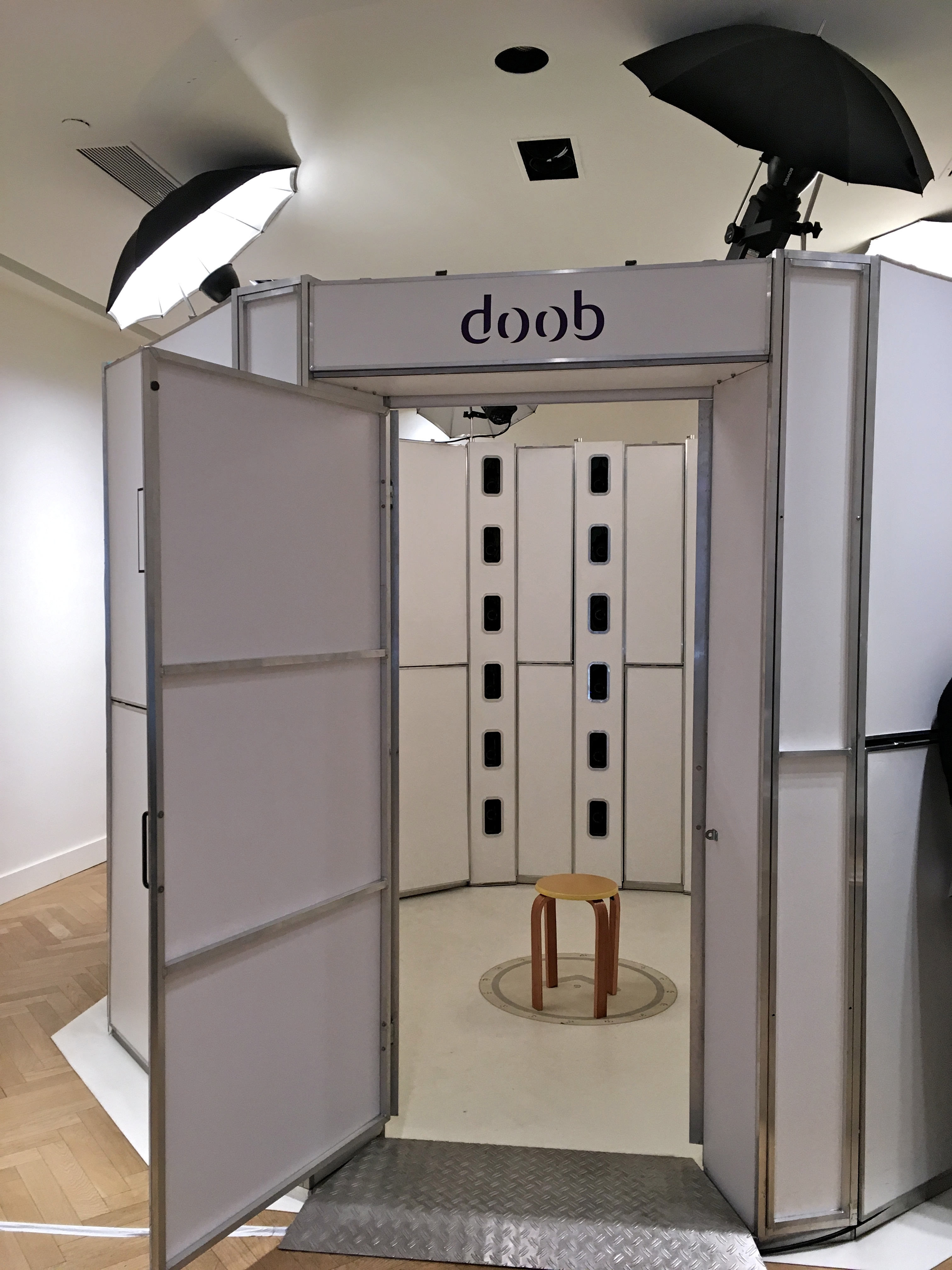 3D-scanning photo booth for 3D selfies at the Doob NY SOHO store.